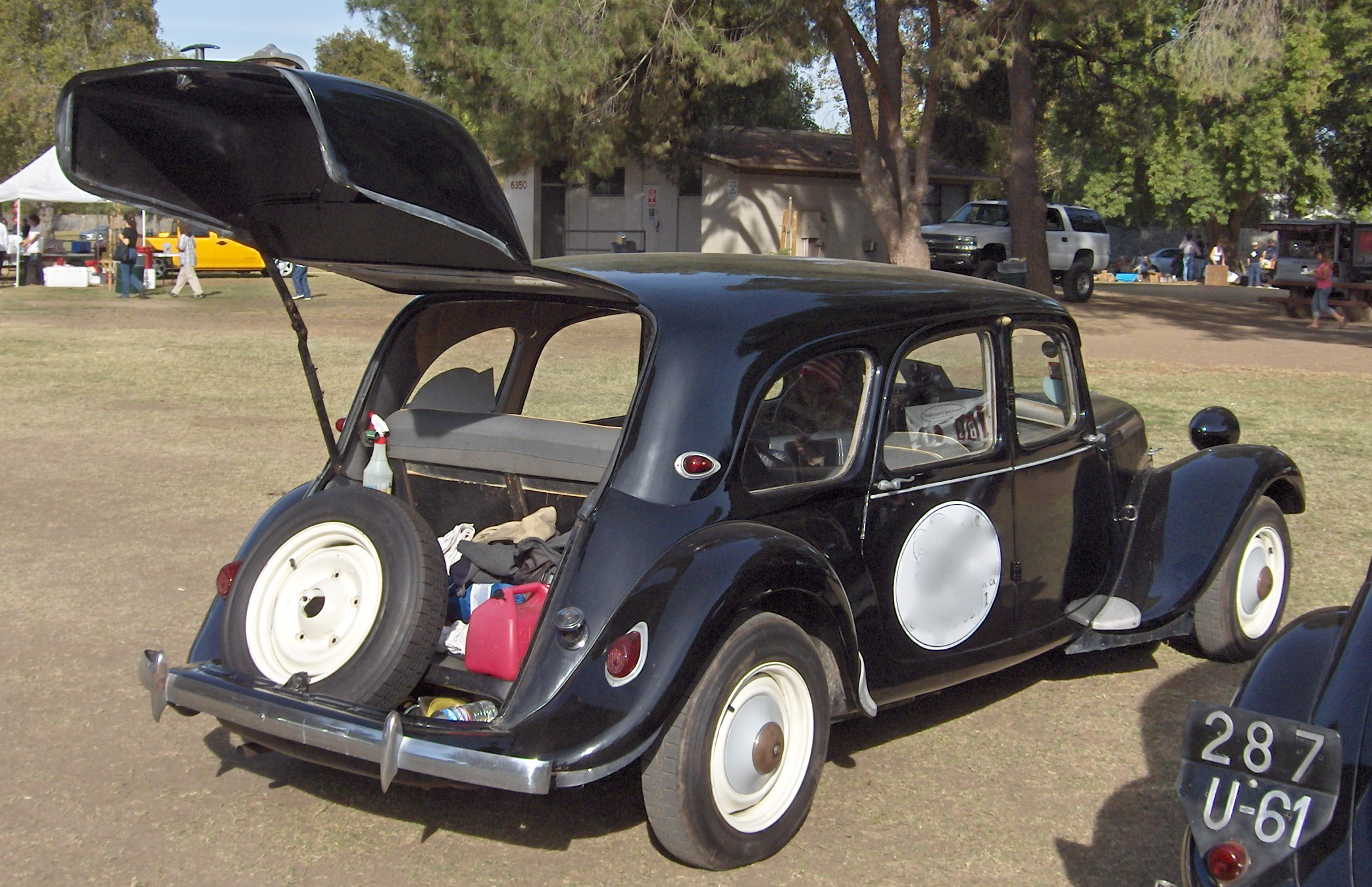 Citroën 11 commerciale ca. 1952 - Own photo - public location.